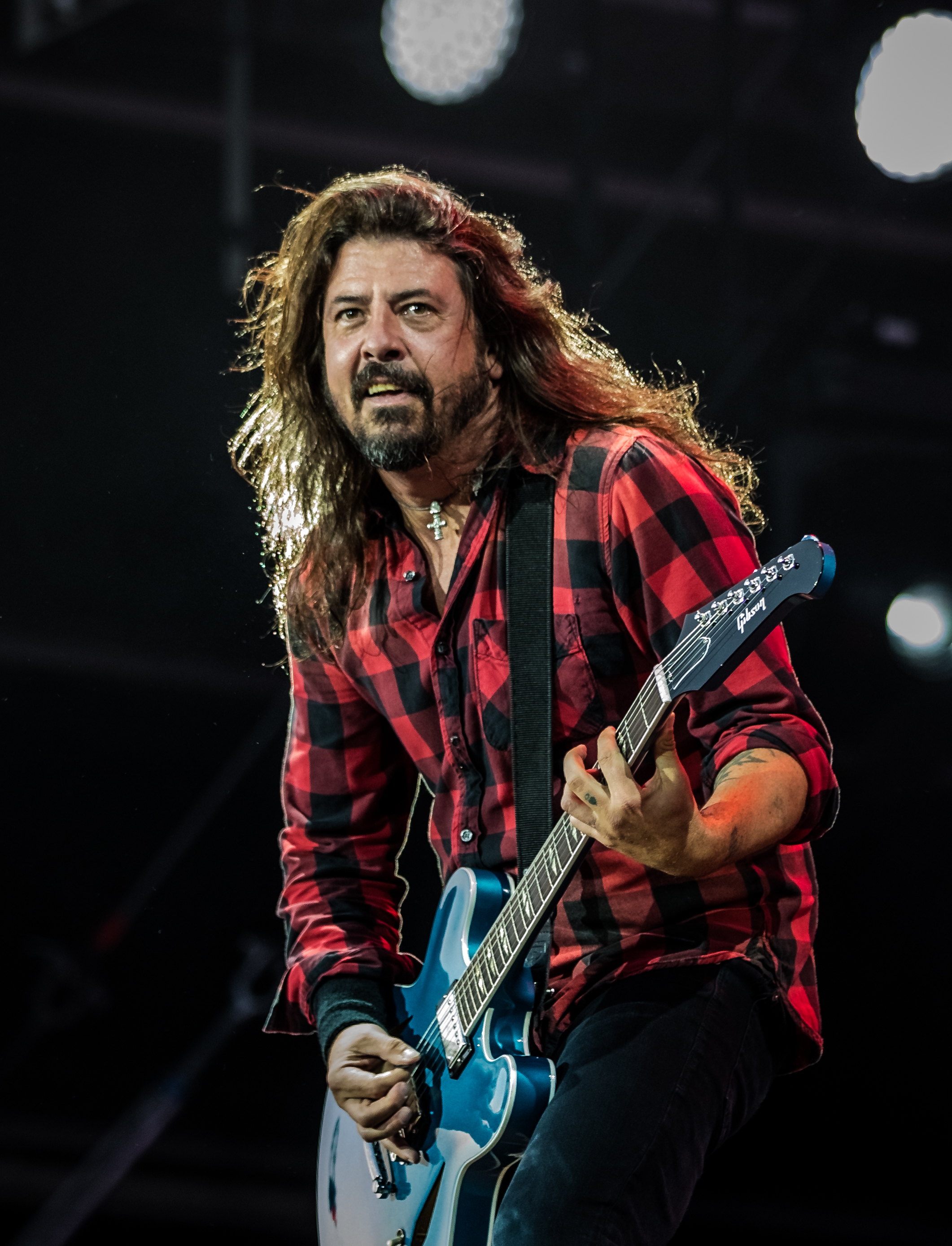 Foo Fighters - Rock am Ring 2018